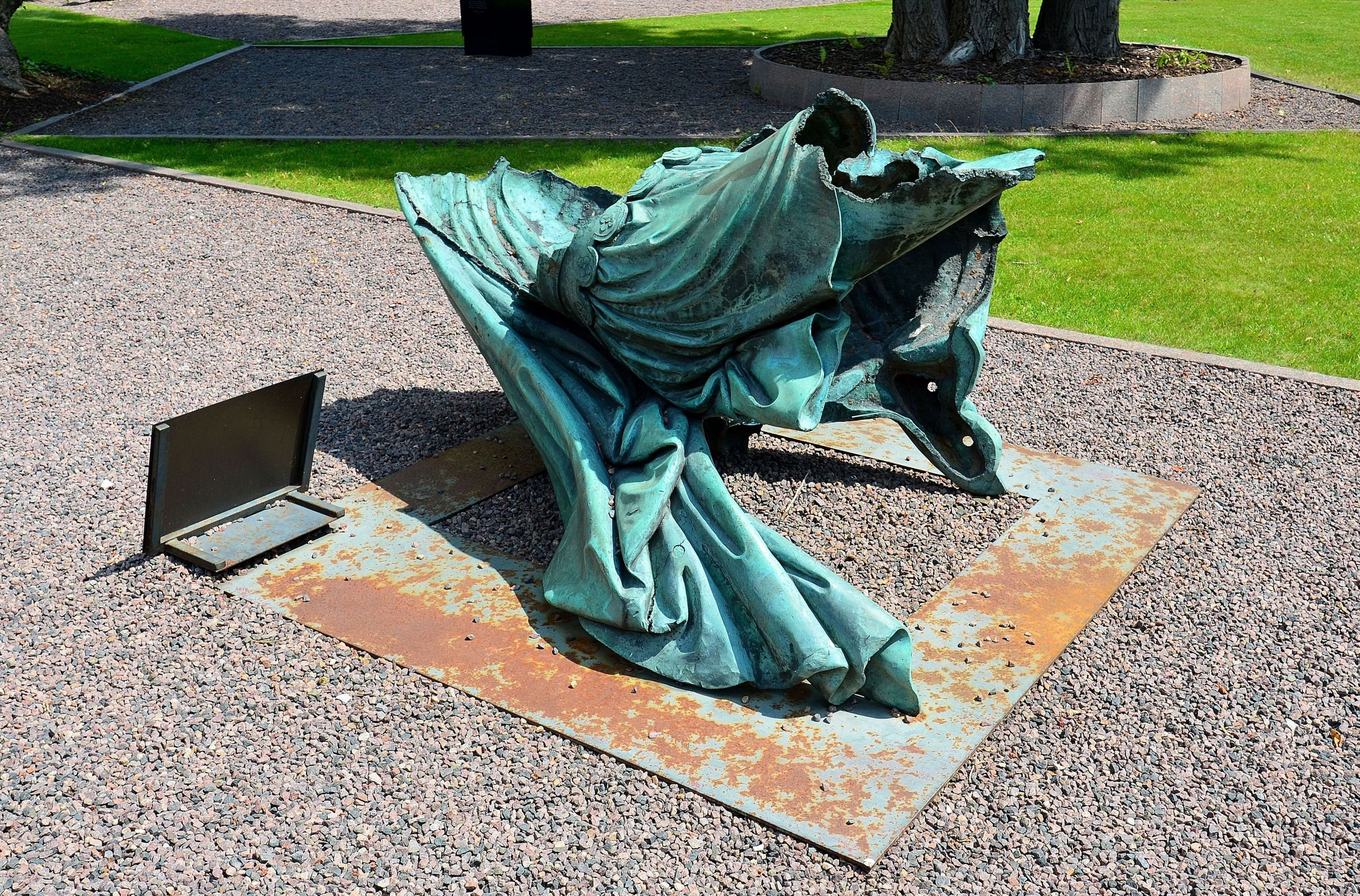 Piece of the original monument to Prince Józef Poniatowski. Park of Freedom, site of the Warsaw Uprising Museum